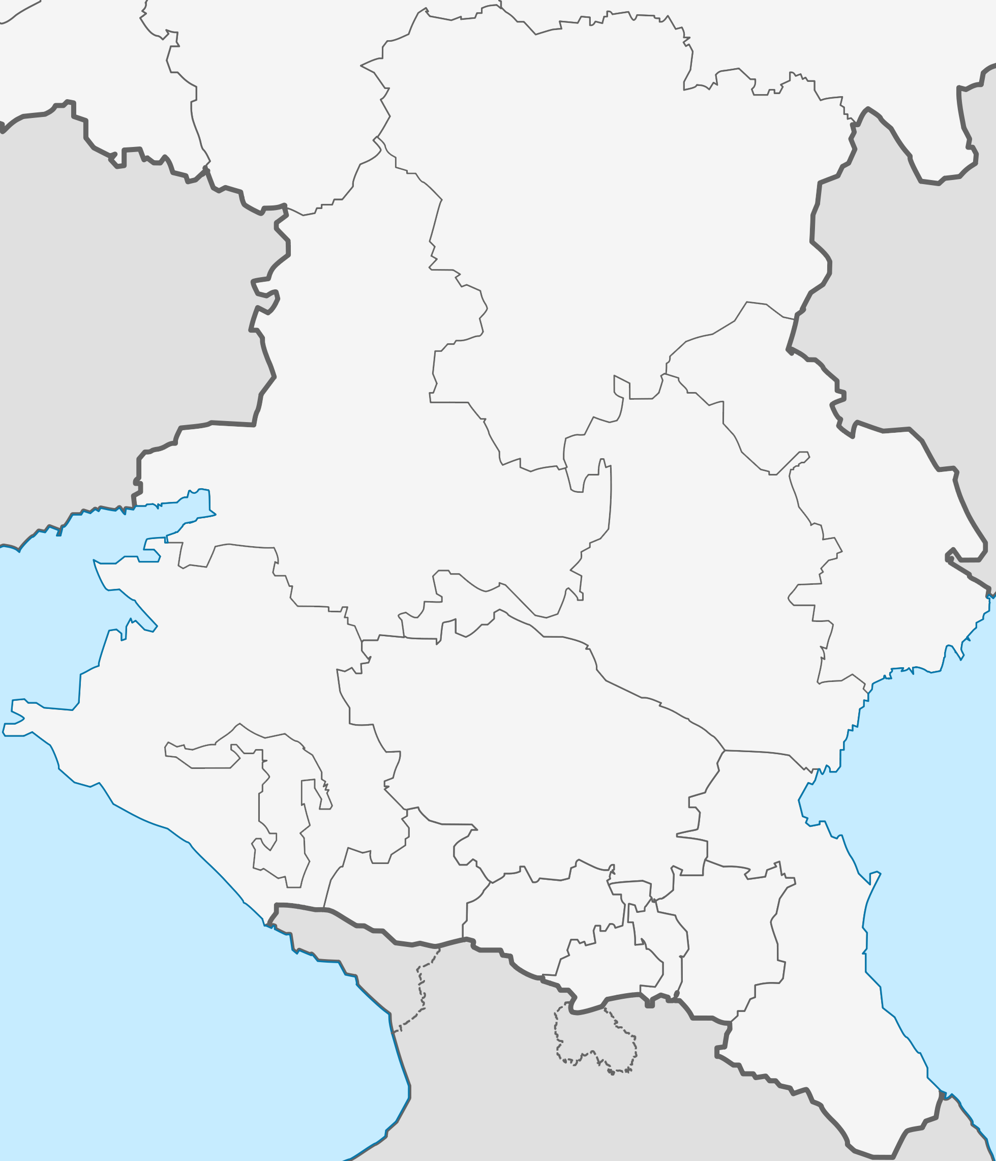 Outline map